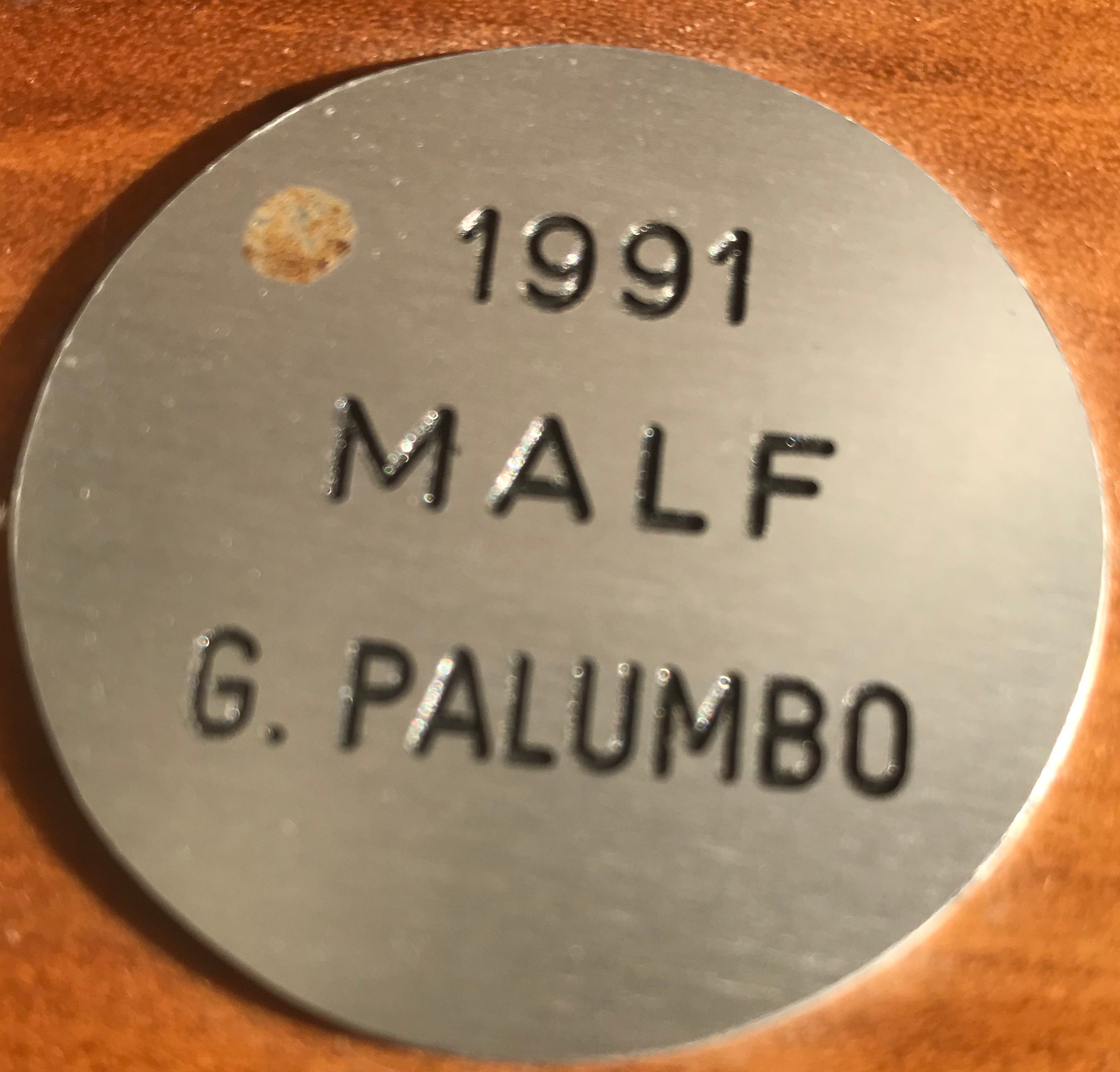 Patch on the Trophy